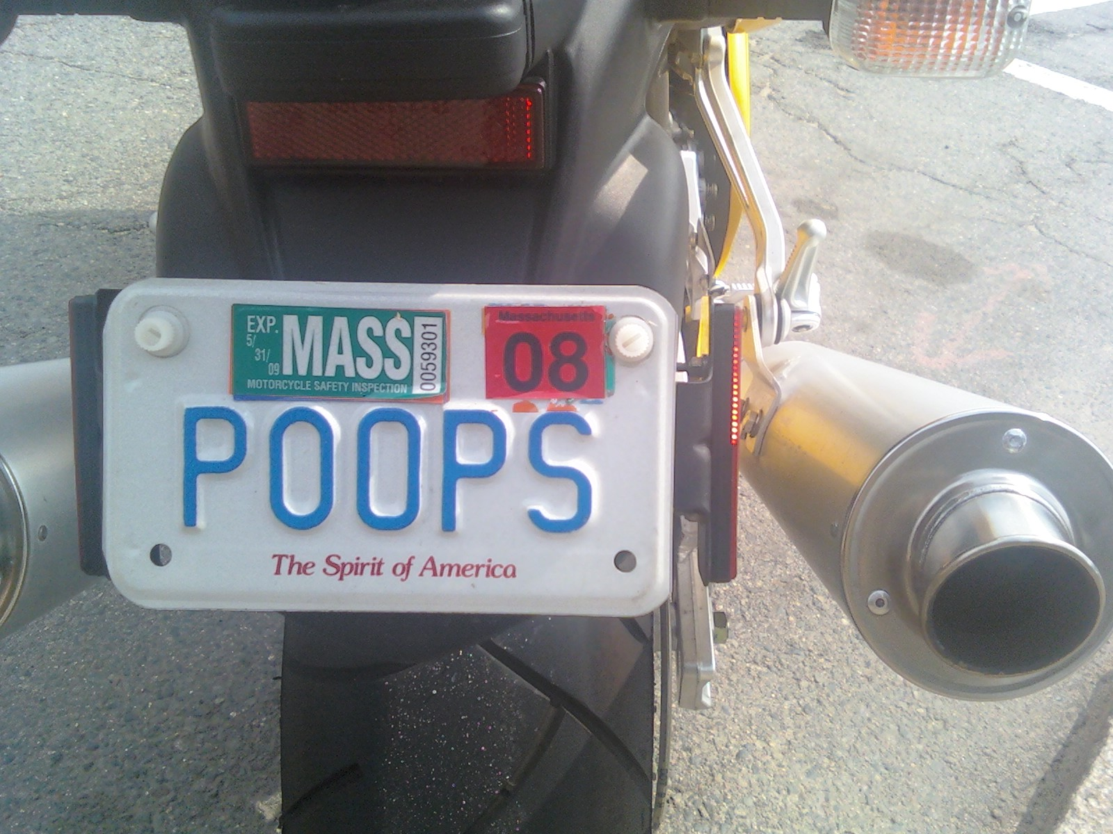 cell phone picture of a Massachusetts vanity motorcycle license plate